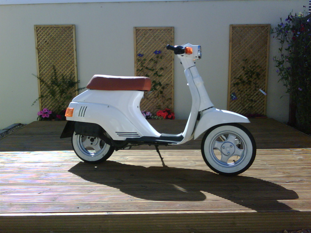 UK spec, Suzuki CS 50. Photo taken in Fareham, UK